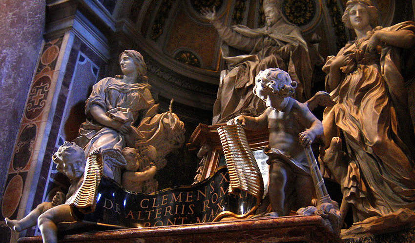 Detail of the tomb of Clement X, St. Peter's Basilica